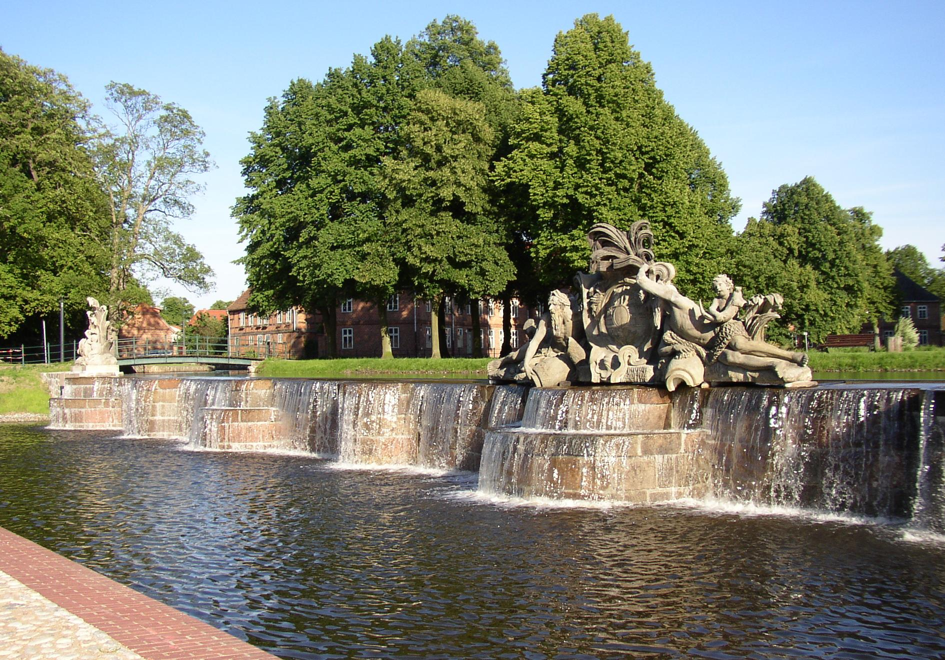 Cascade in Ludwigslust in Mecklenburg-Western Pomerania, Germany